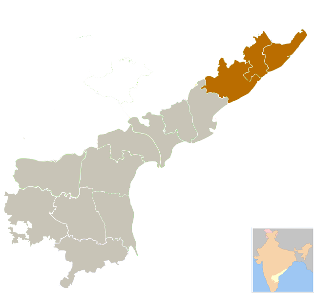 Uttarandhra districts in Andhra Pradesh (from June 2nd 2014)